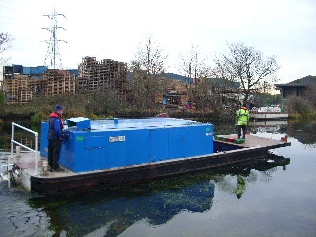 Picture of working boat on the River Lee Navigation at Tottenham